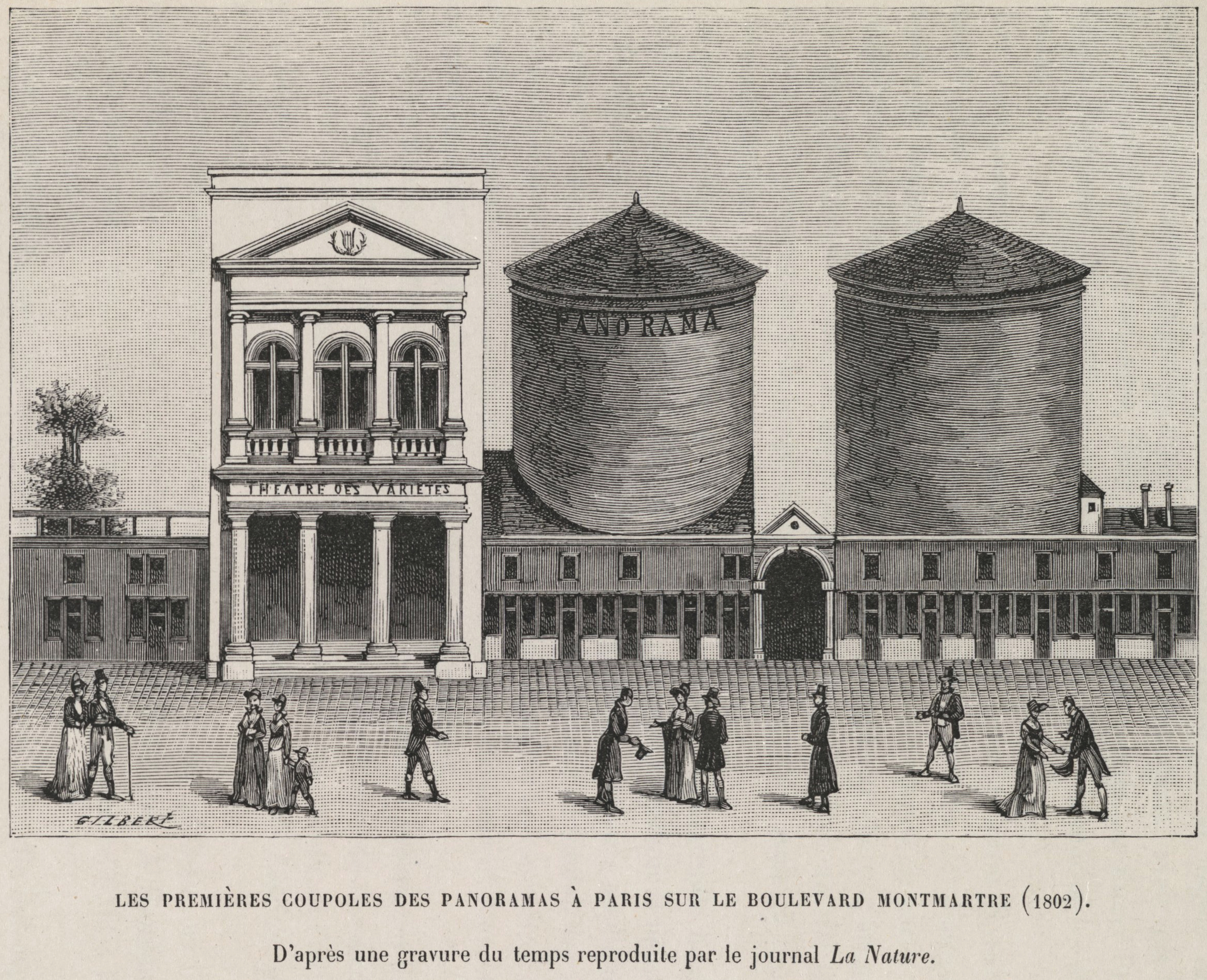 Exterior structure of a few panoramas on the boulevard Montmartre. These panorama represented cityscapes (Paris and Rome in particular) and battlescenes. They were about 20 feet high, and their diameter was about 55 feet.